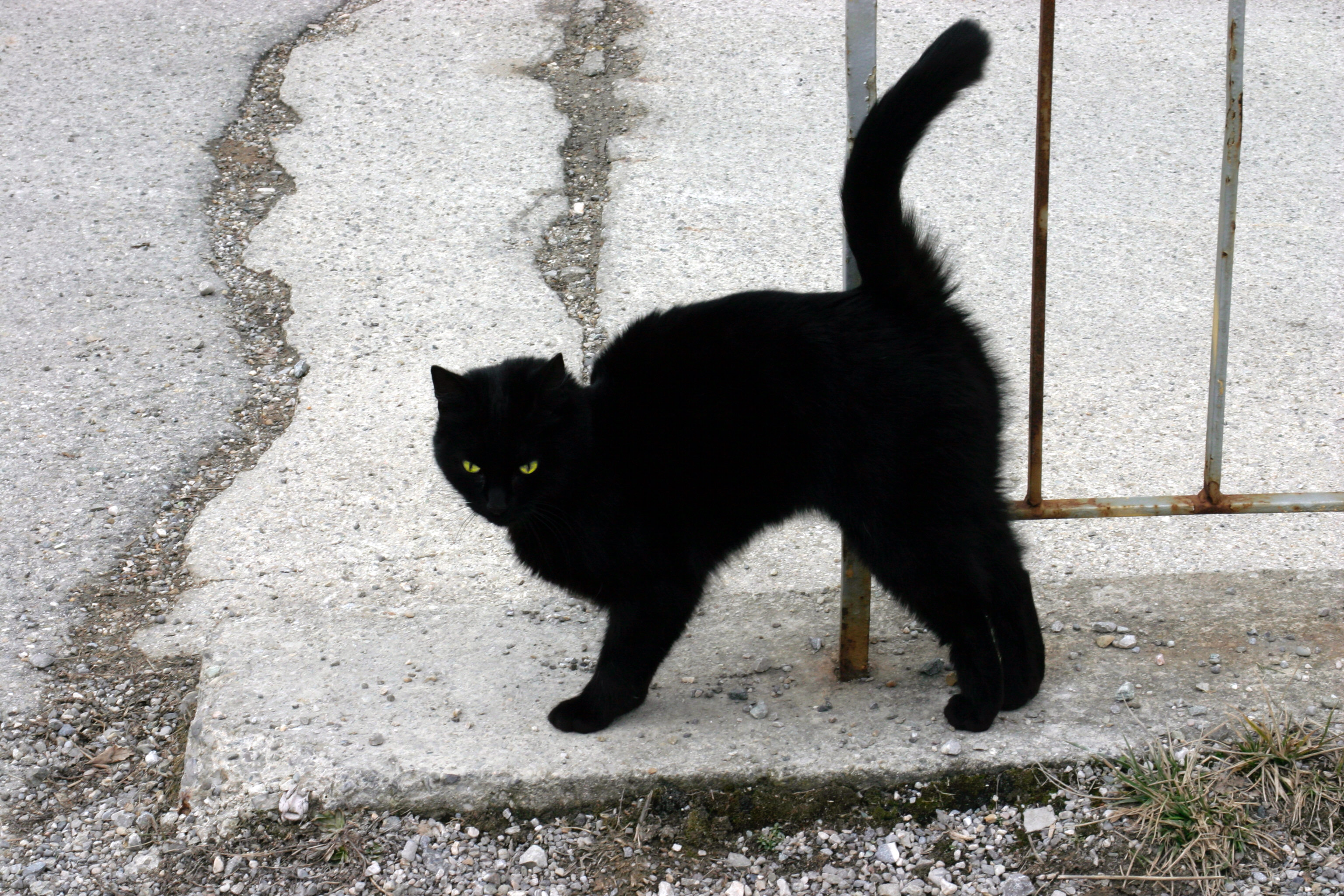 A Black cat